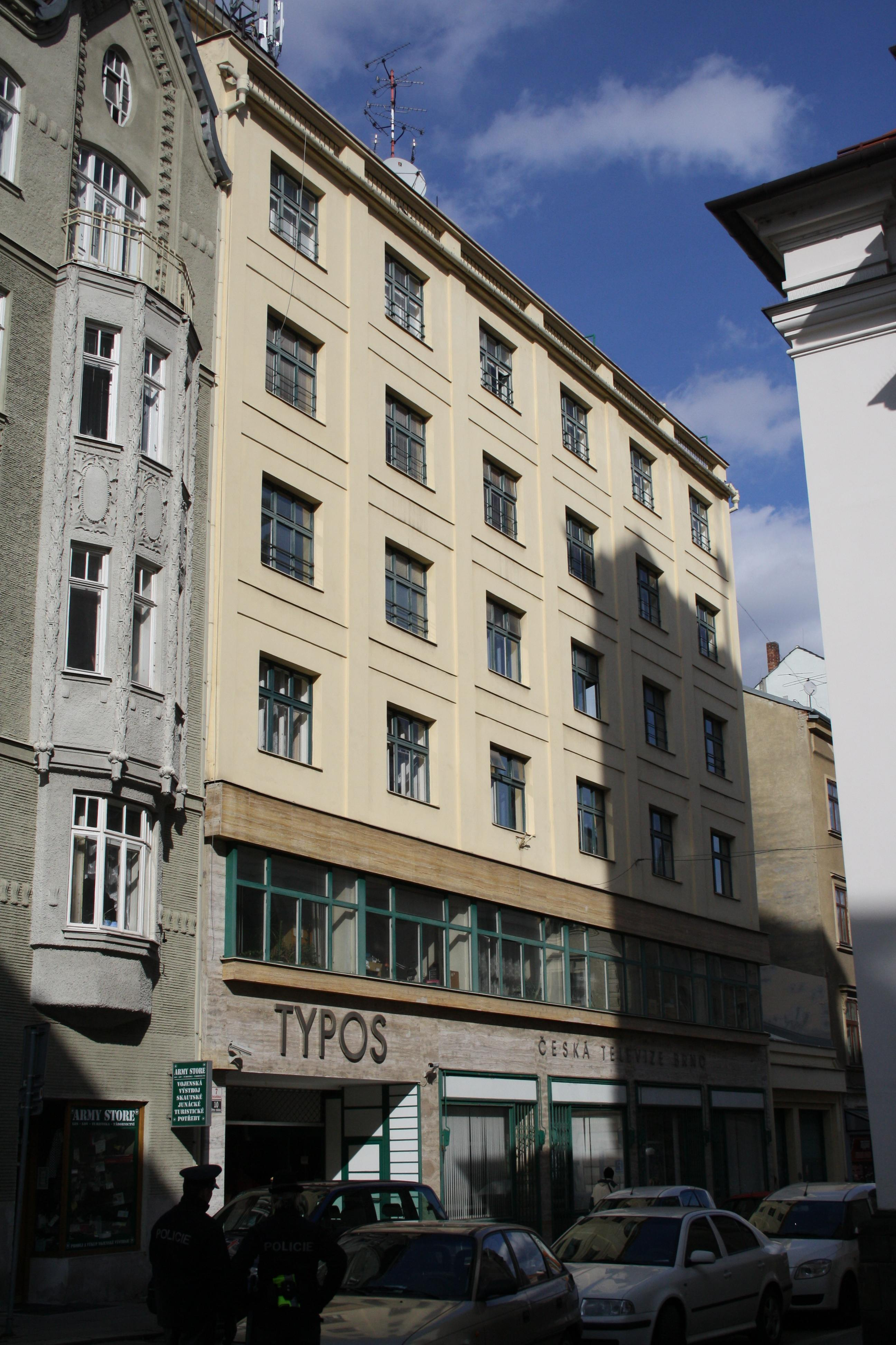 Typos passage building in Brno-Center, Czech TV.